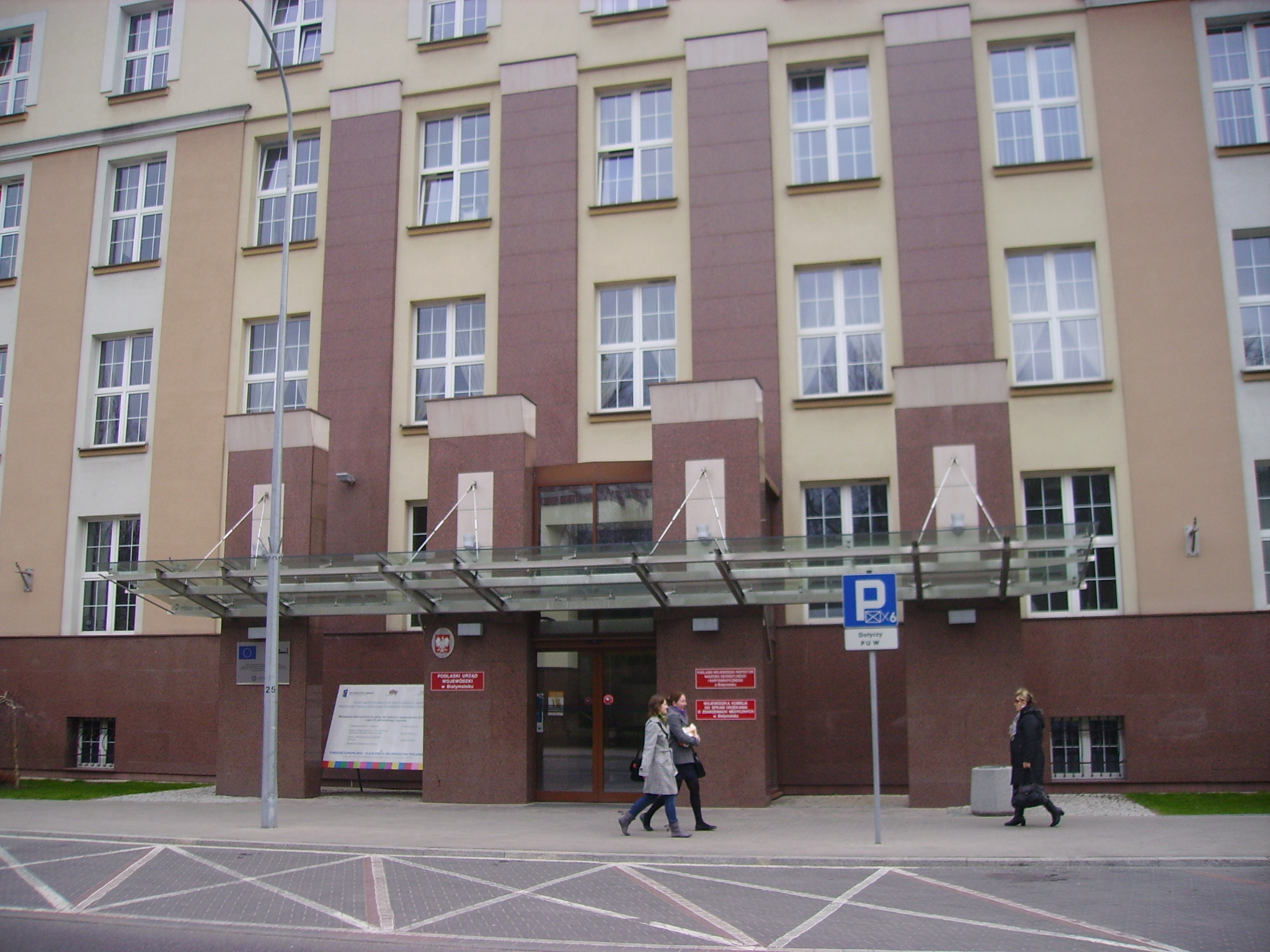 Podlaskie Voivodship Office. Białystok, 3 Mickiewicza St.